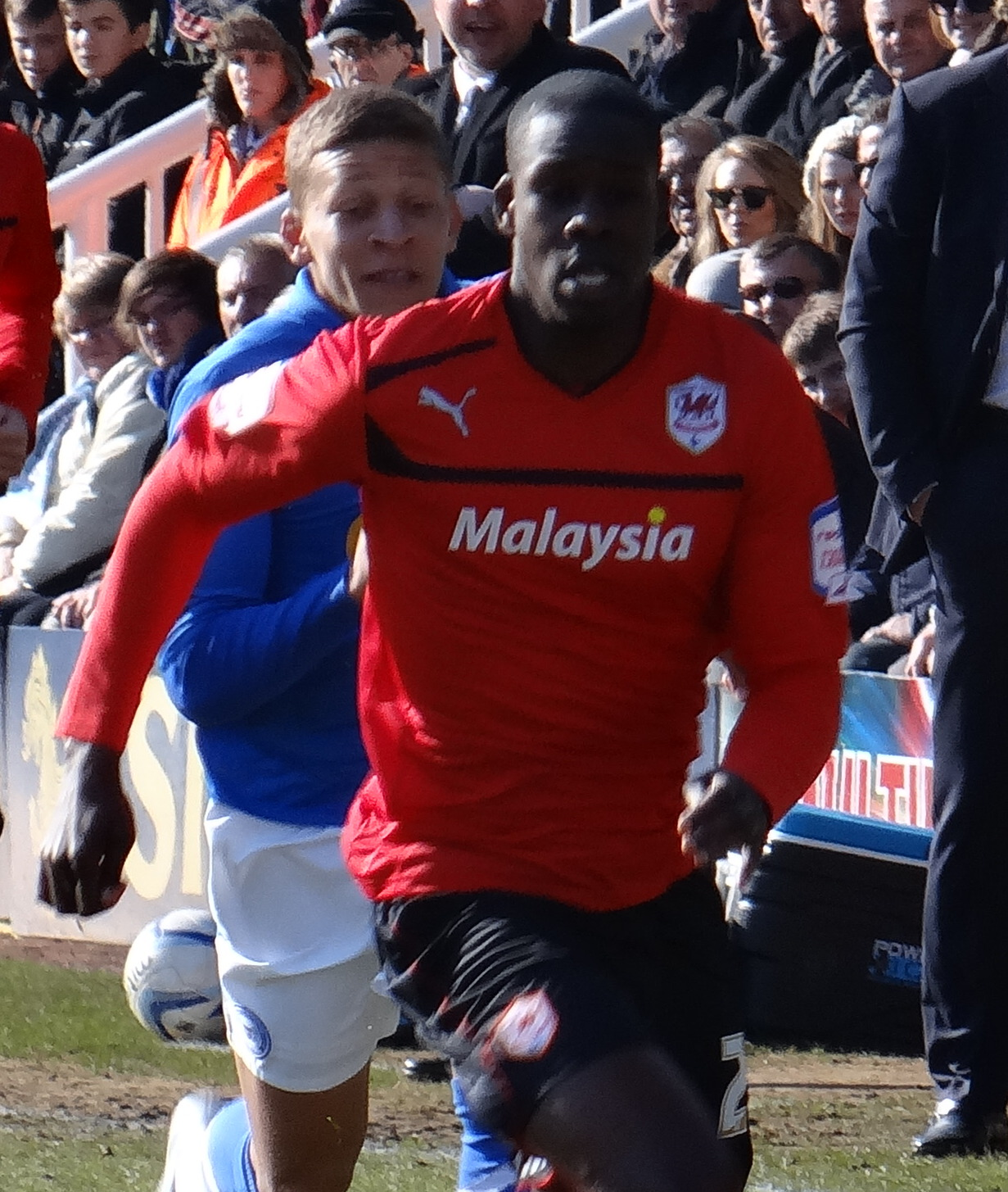 Leon Barnett playing for Cardiff City against Peterborough United on 30 March 2013. Left to right: Matthew Connolly, Dwight Gayle, Leon Barnett